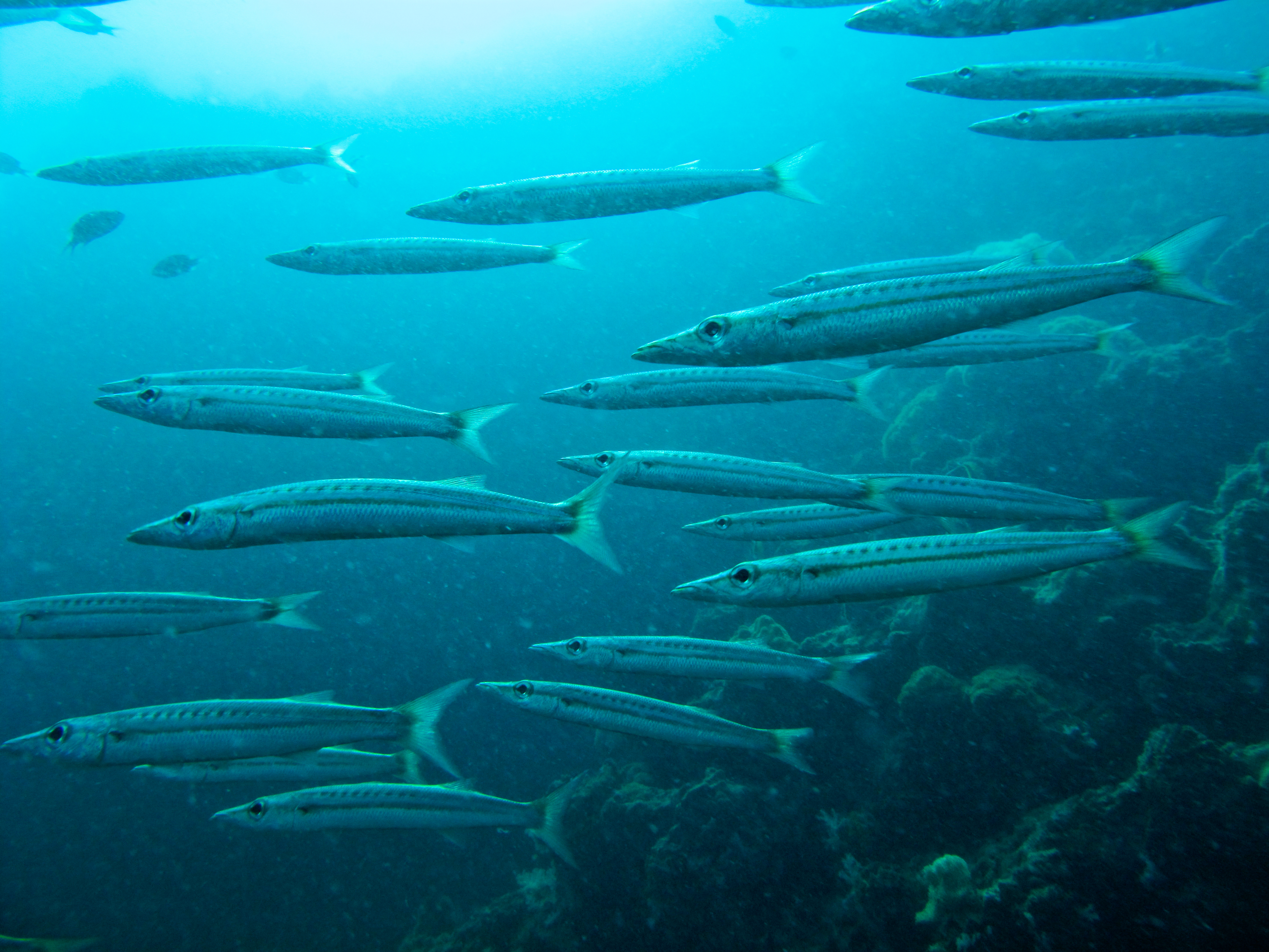 School of Yellowtail Barracuda (Sphyraena flavicauda) in the Andaman Sea off Ko Lanta, Thailand